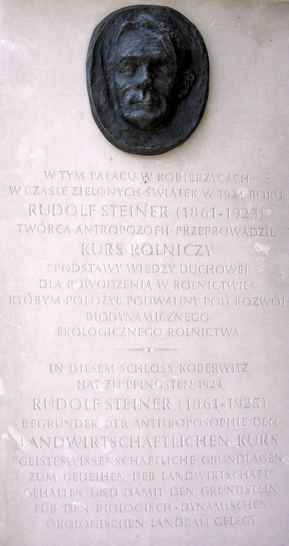 Rudolf Steiner plaque embeded in the wall of palace in Kobierzyce near Wrocław, Poland In the farm near Kobierzyce palace Steiner was teaching in 1924 his vision of biodynamic agriculture. The plaque embeded 75 years later.